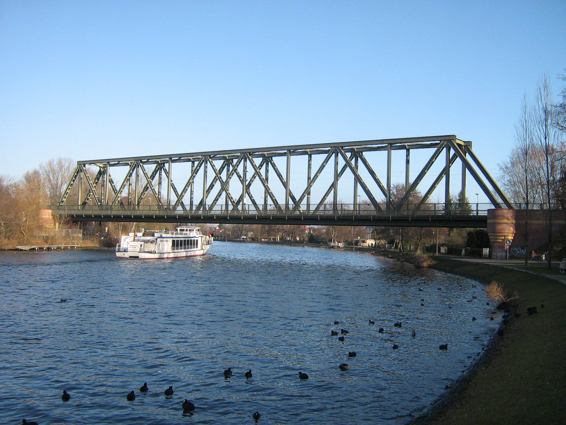 The estuary of the river „Havel“ in the Lake „Schwielowsee“. The river flows through the lake. (Municipality Schwielowsee, District Potsdam-Mittelmark, Brandenburg, Germany)